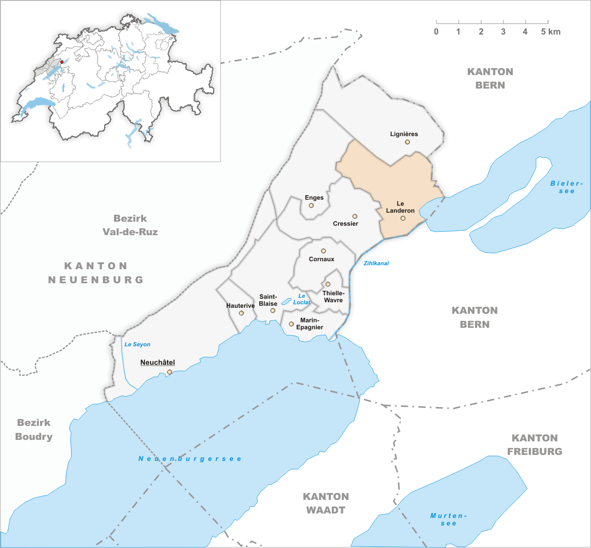 Municipality Le Landeron